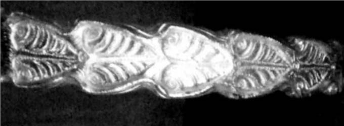 KunsthistorischesMuseum Dacian Gold